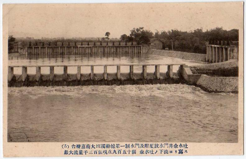 1910 KANAN WATER GATE